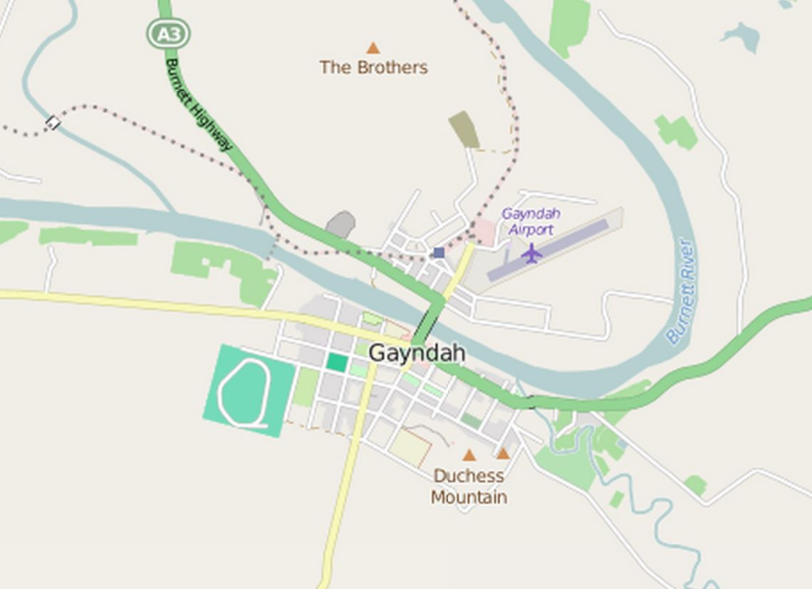 Open Street Map - Gayndah, 2015